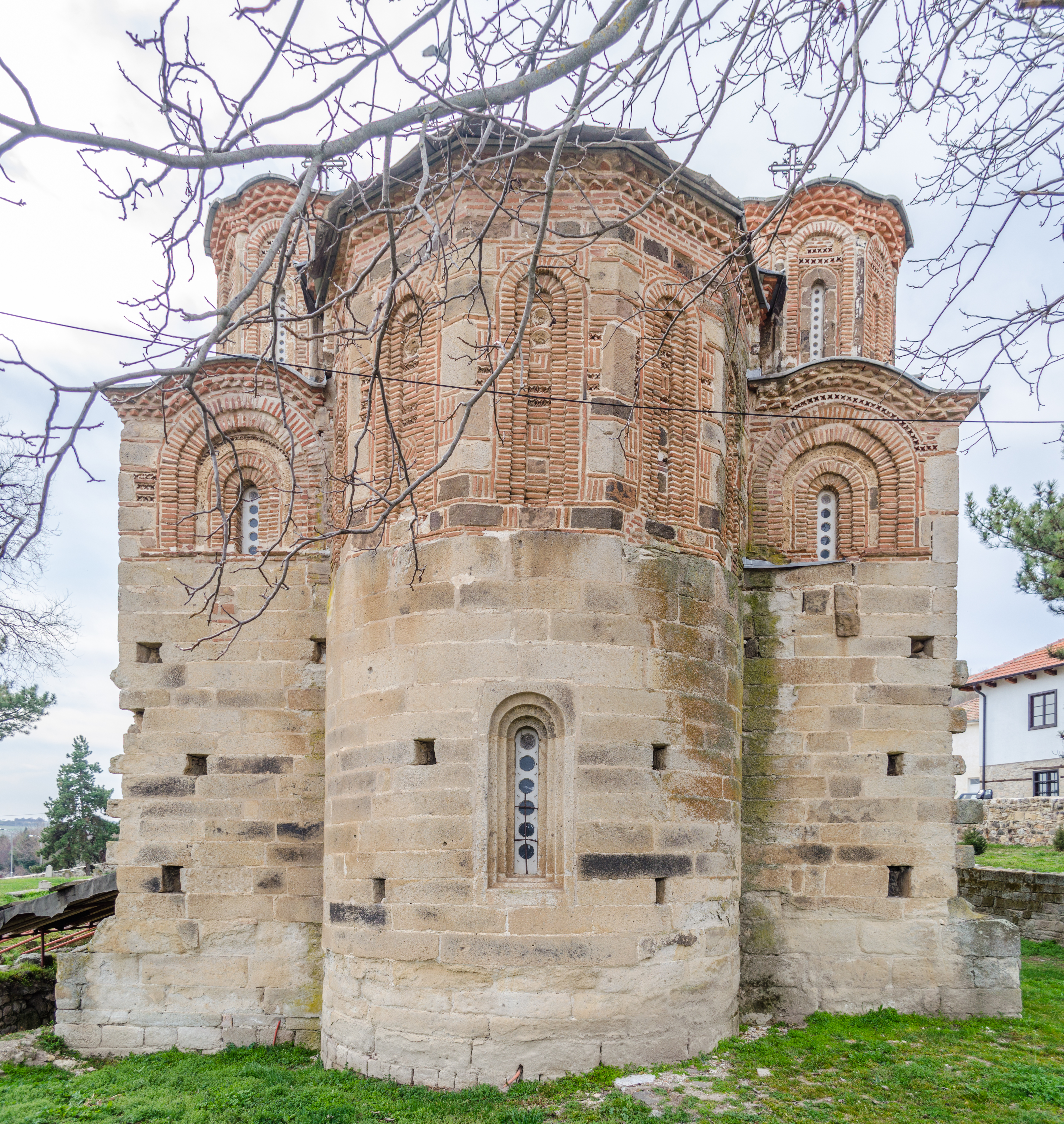 St. George's Church (Staro Nagoričane)